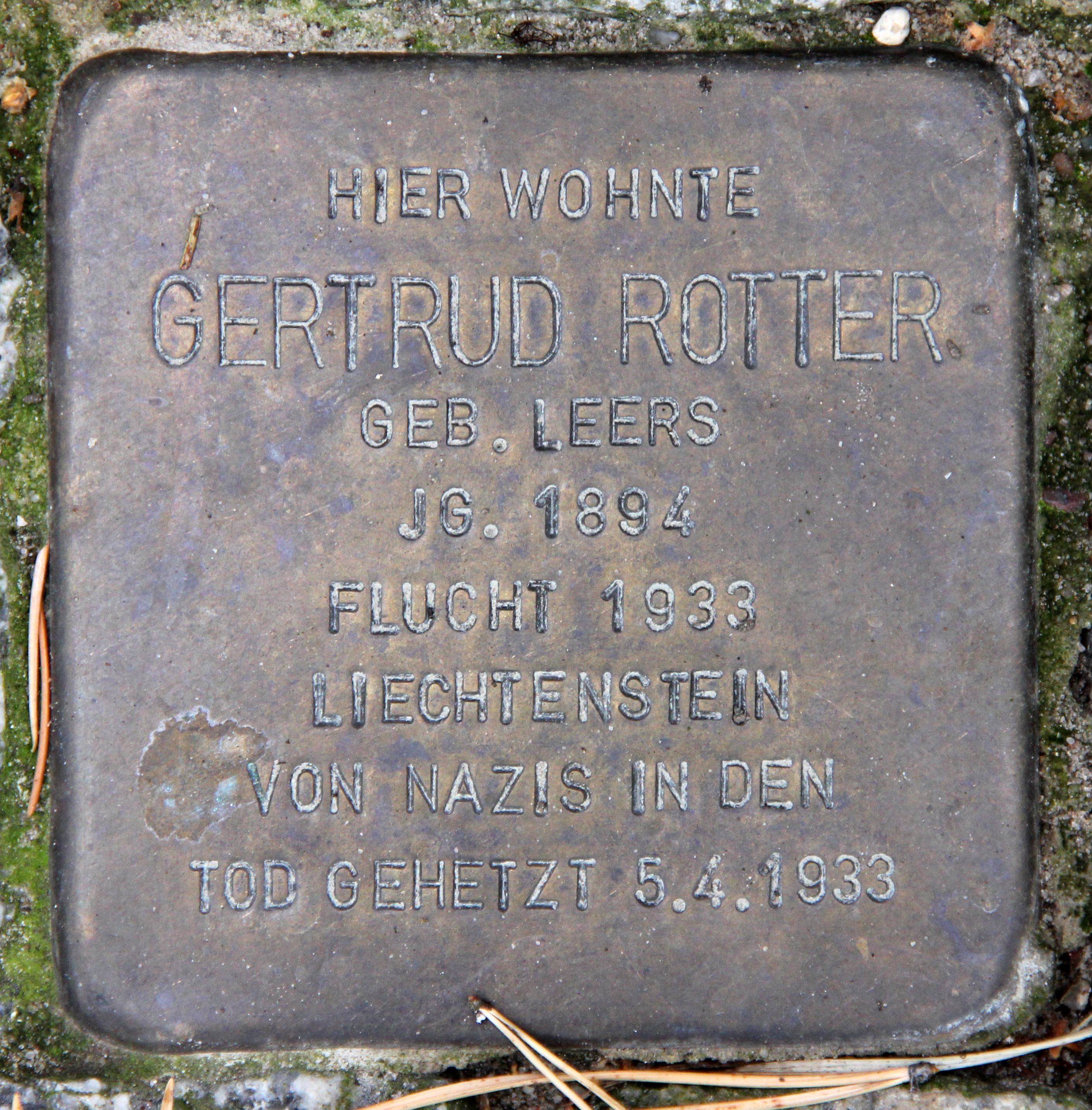 "Stolperstein" (stumbling block), Gertrud Rotter, Kunz-Buntschuh-Straße 16, Berlin-Grunewald, Germany